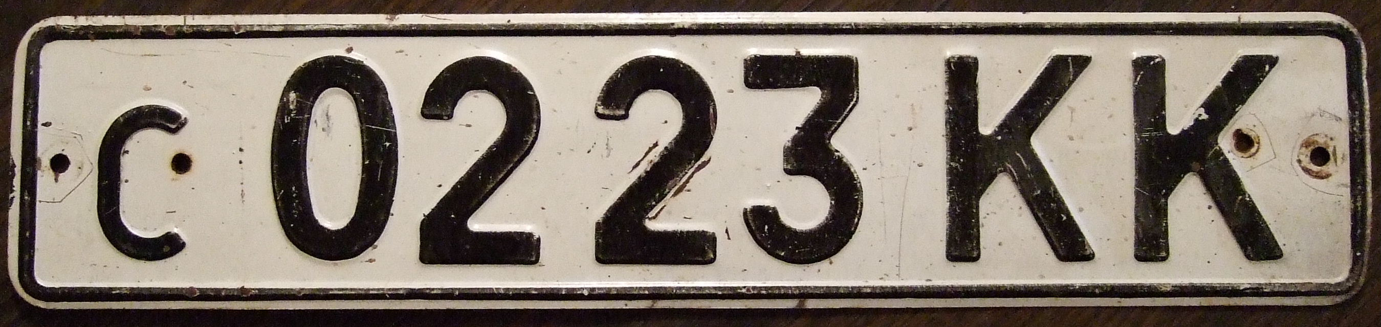 License plate of the Soviet Union, Krasnodar Region, Russian SFSR